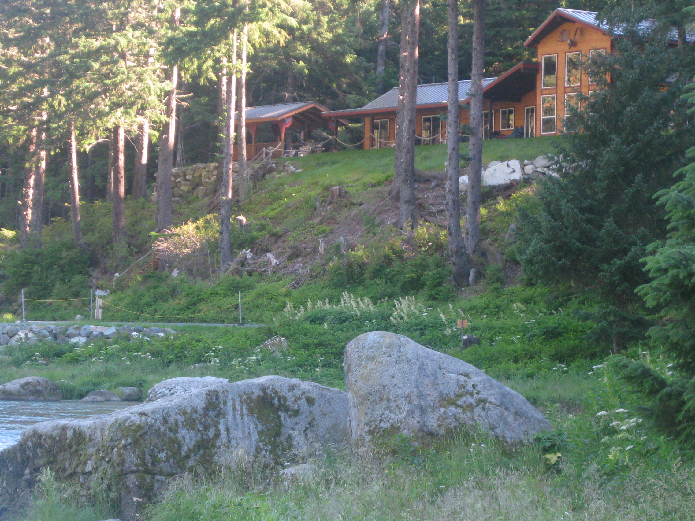 Deer Rock near Chilkoot River Alaska